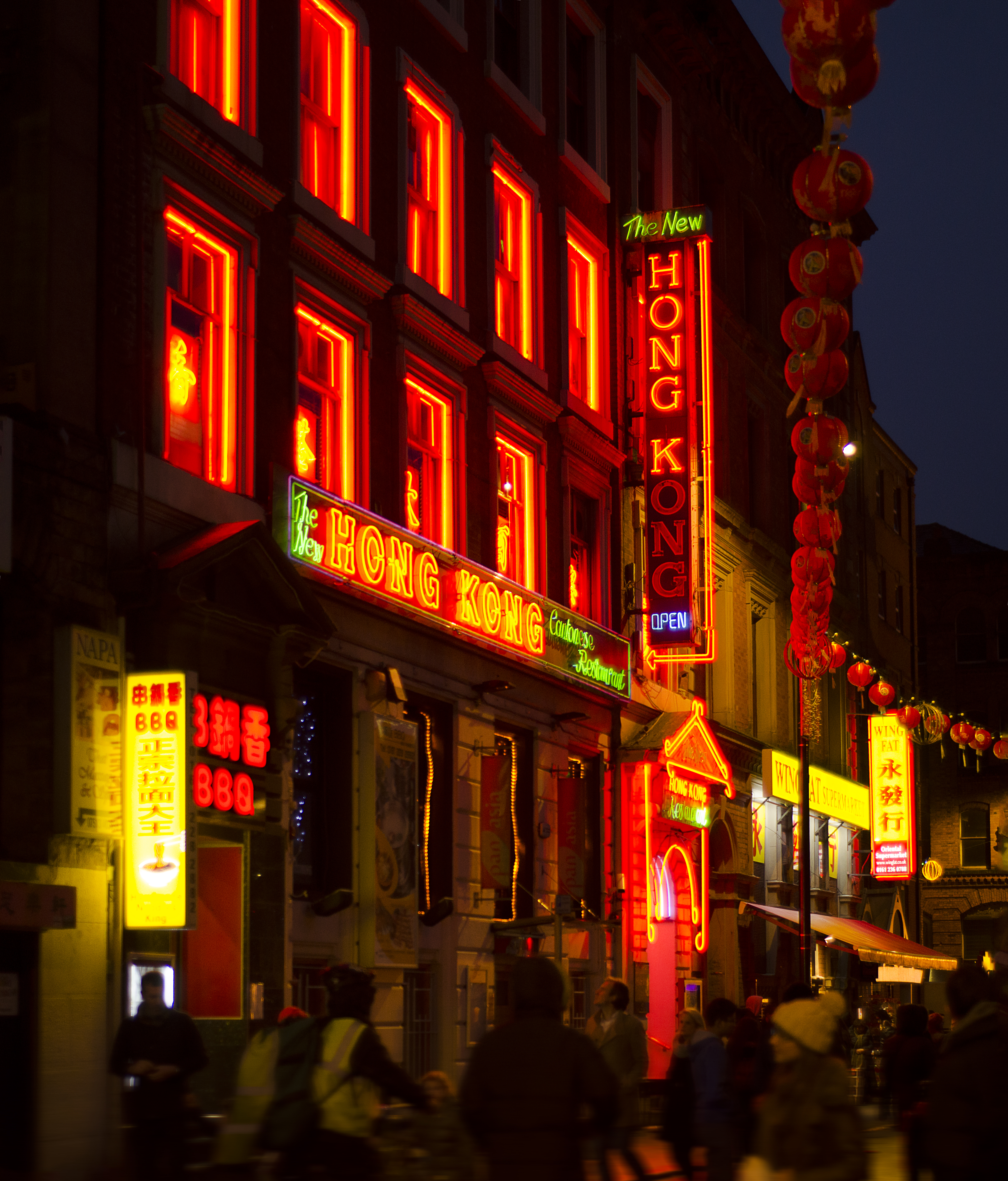 The New Hong Kong, a restaurant in Chinatown, Manchester, lit with neon lights at nighttime.